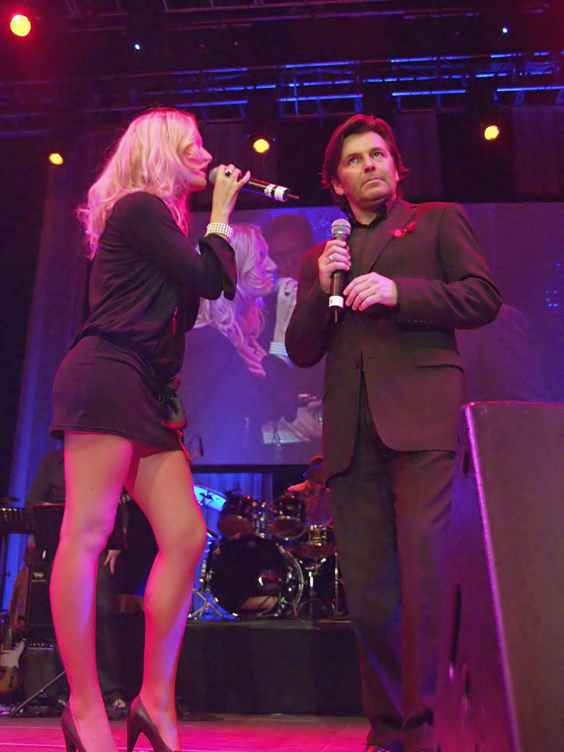 Juliette Schoppmann & Thomas Anders performing on the charity concert "Cover me" at Palladium, Cologne, Germany.